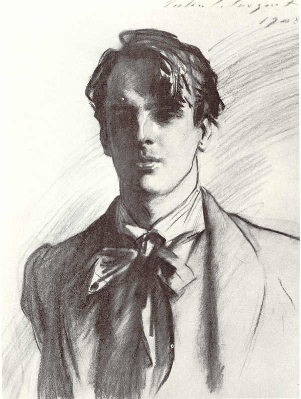 Portrait of William Butler Yeats by John Singer Sargent, pencil, 9 x 6 in.